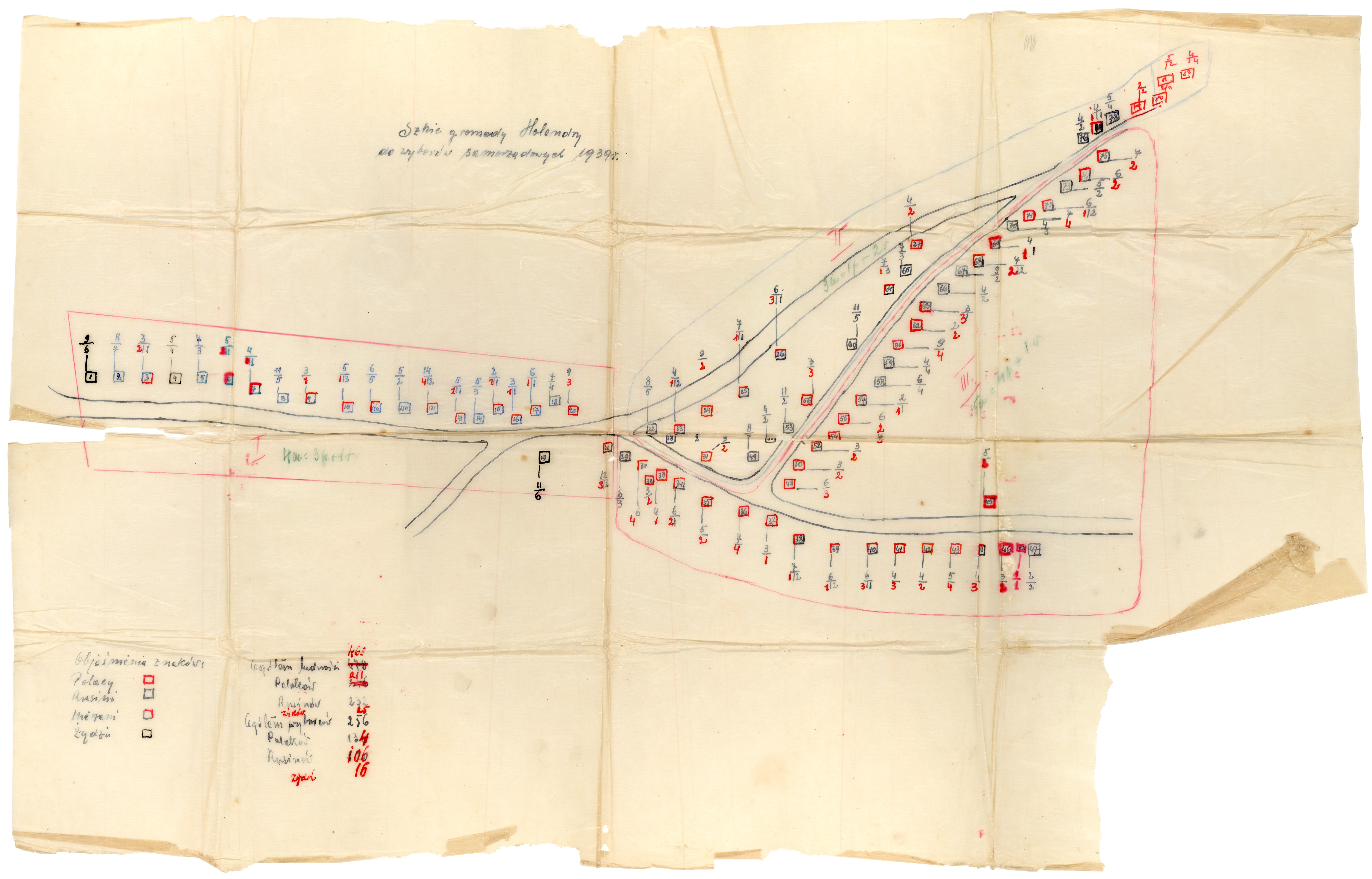 Sketch of the Holendry village in Podhajce county drafted before the 1939 local elections